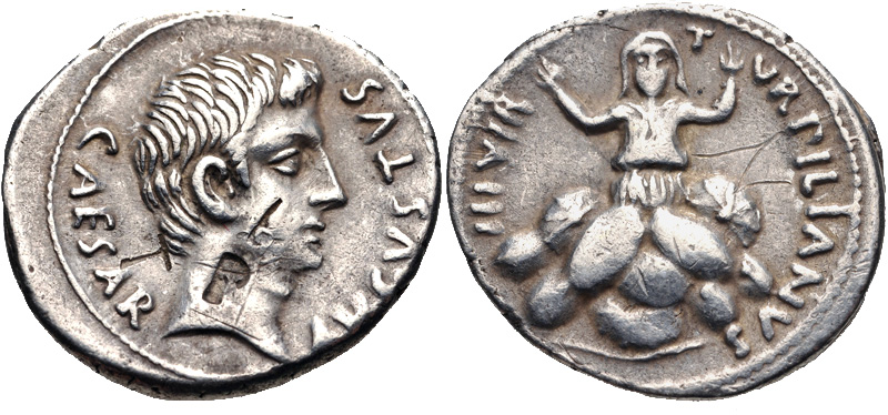 Augustus. 27 BC-AD 14. AR Denarius (20mm, 3.88 g, 12h). Rome mint. P. Petronius Turpilianus, moneyer. Struck 19-18 BC. Bare head right Tarpeia standing facing, wearing tunic, raising both hands, buried to her waist under ten shields. RIC I 299; RSC 494. VF, lightly toned, obverse banker’s marks, graffiti (“N”) on reverse. Tarpeia was a Vestal Virgin that betrayed the city of Rome to the Sabines when they were attempting to rescue their wives and daughters. As payment for her betrayal, she demanded she be given what the Sabine soldiers wore on their left arms, meaning their gold bracelets. The Sabines were offended by Tarpeia's reprehensible greed and treason, and took her demand literally. She met her death under the crushing weight of the soldiers' shields.